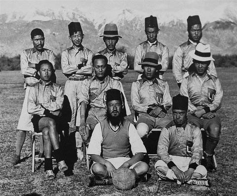 The first Tibet national football team.